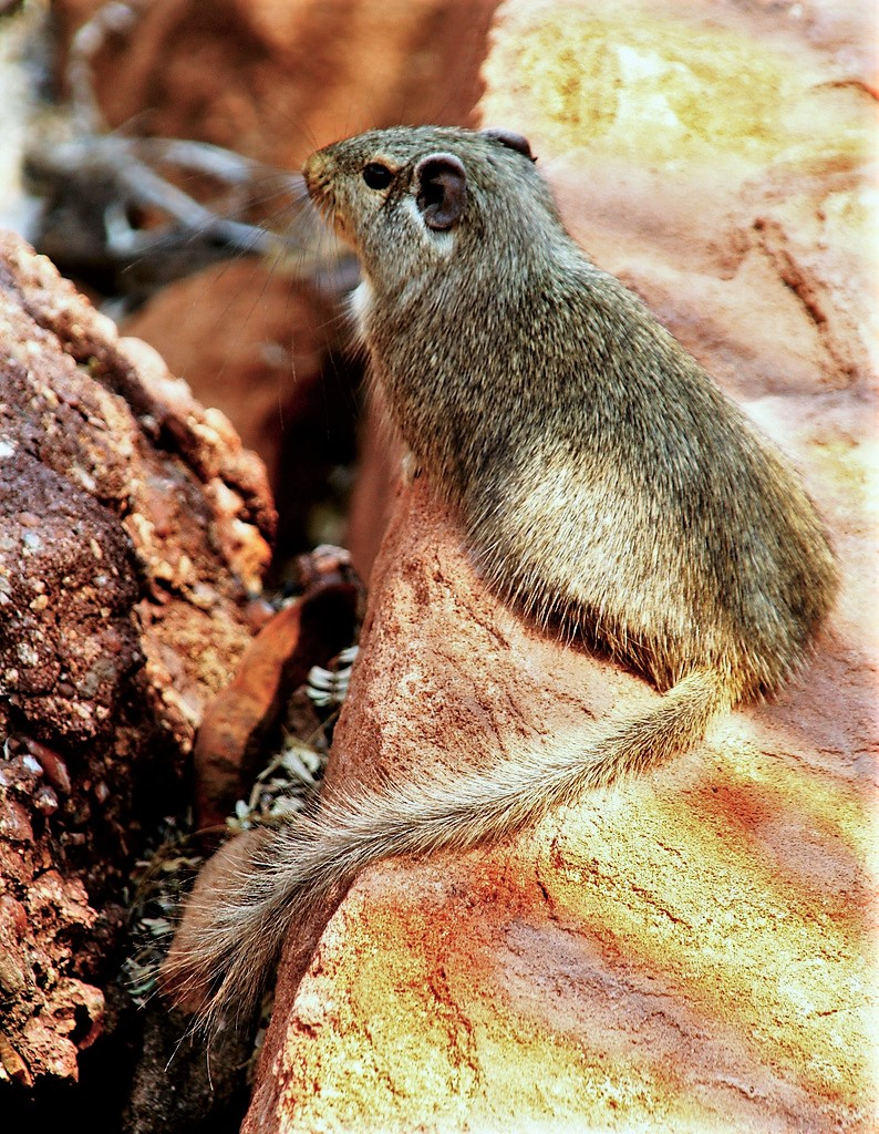 A Dassie Rat, image taken at Twyfelfontein, in Kunene, Namibia